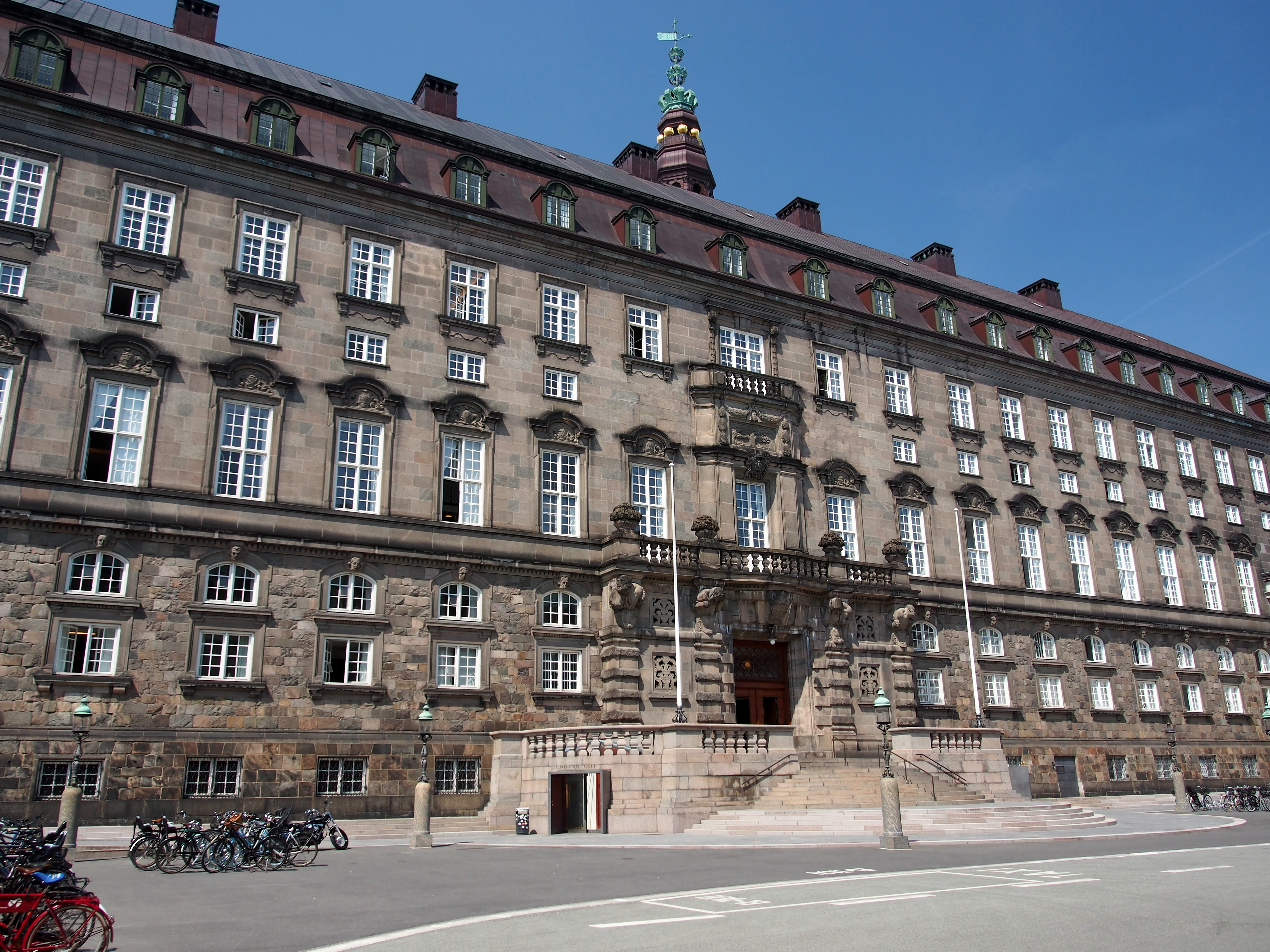 Photographed at the Copenhagen, Denmark.